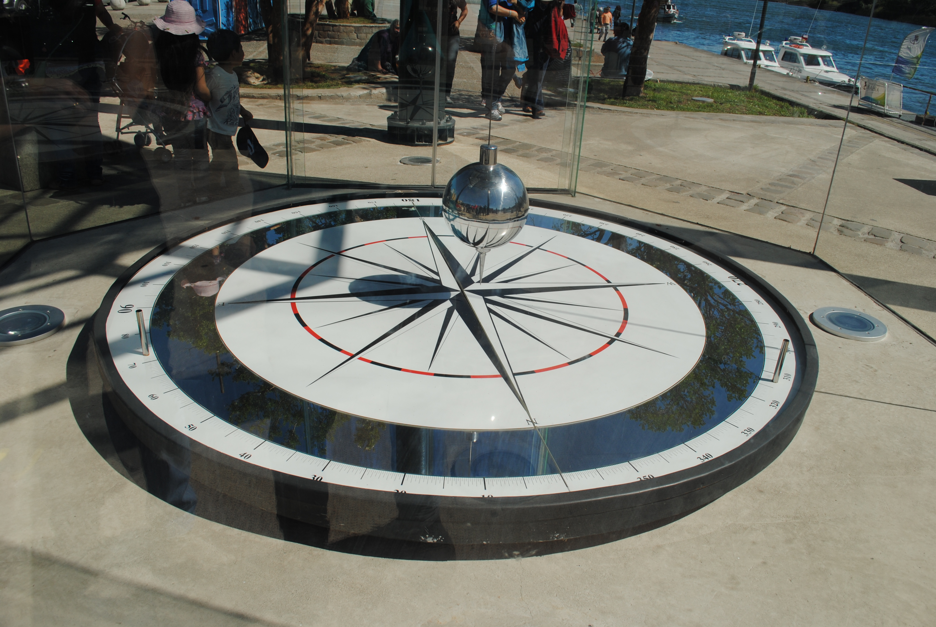 Valdivia